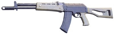 AEK-971 in real life